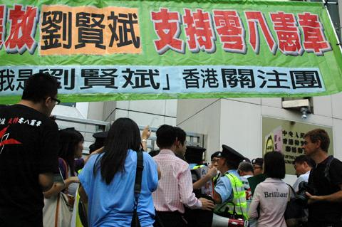 Hong Kong demonstrators are supporting Liu Xianbin.